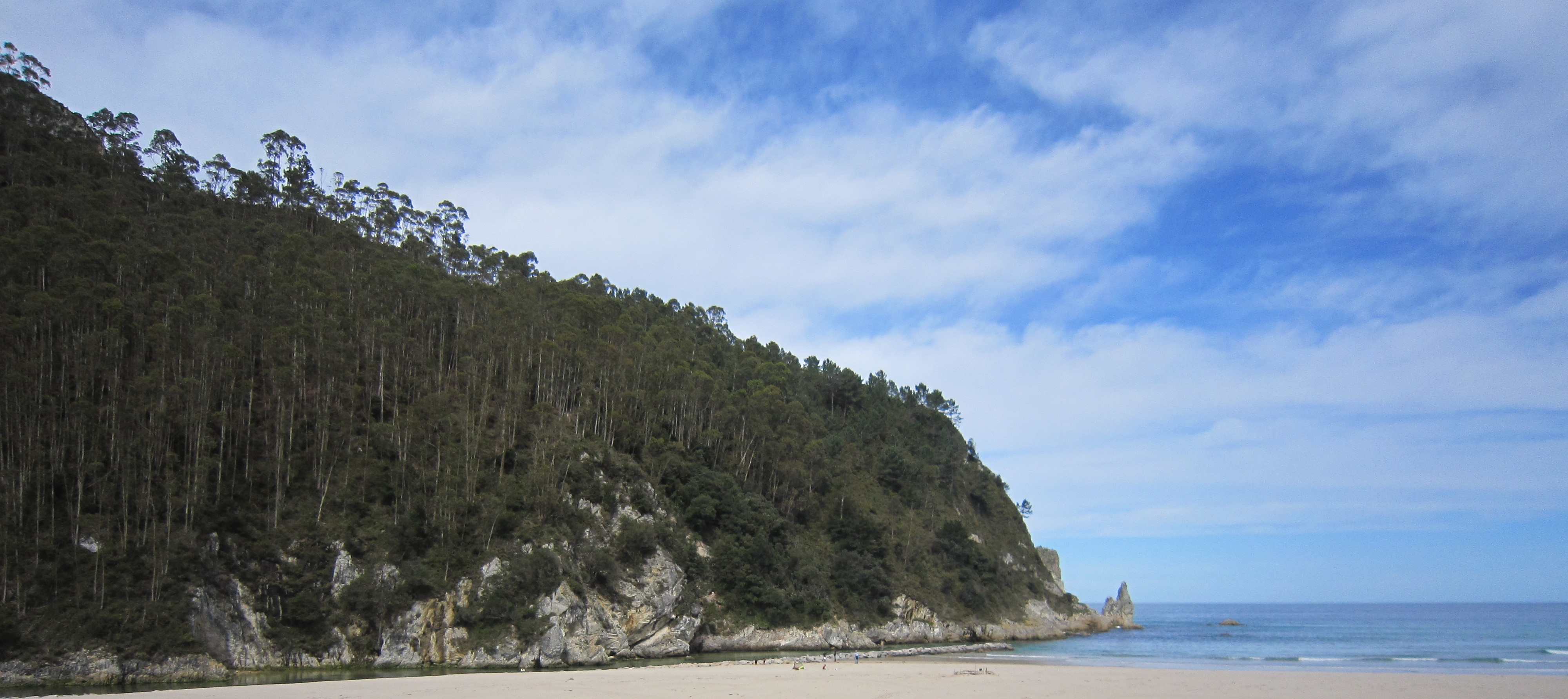 La Franca beach in Ribadedeva, Asturias, Spain